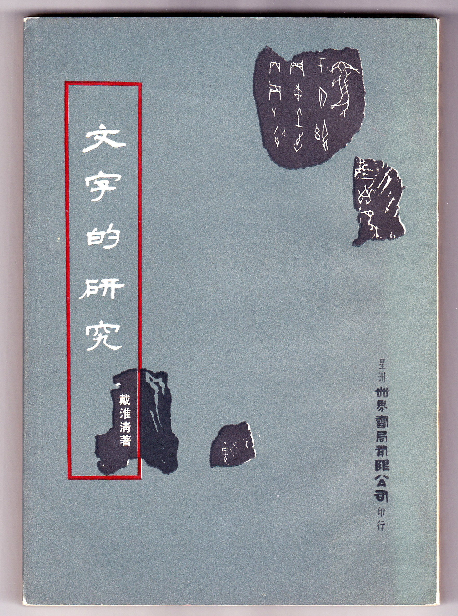 A Study of Chinese Words中文（香港）: 新加坡 戴淮清著 《文字的研究》 1960